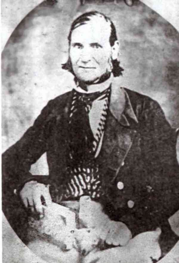 portrait of James Calvin Sly Born Aug 8, 1807